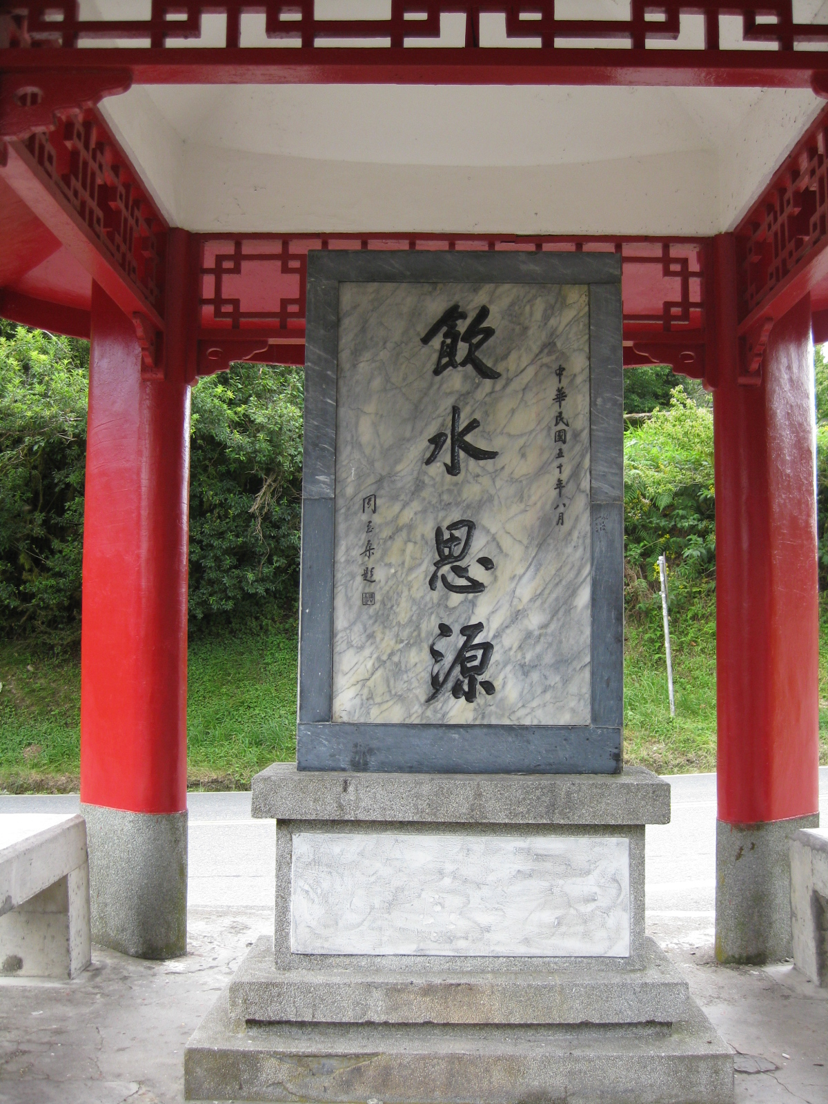 The stele located at Sihyuan Wukou, inscribed with "Yin Shuei Sih Yuan" written by Zhou Zhirou.中文（台灣）: 這座碑位在思源埡口，碑上刻著周至柔題「飲水思源」四字。